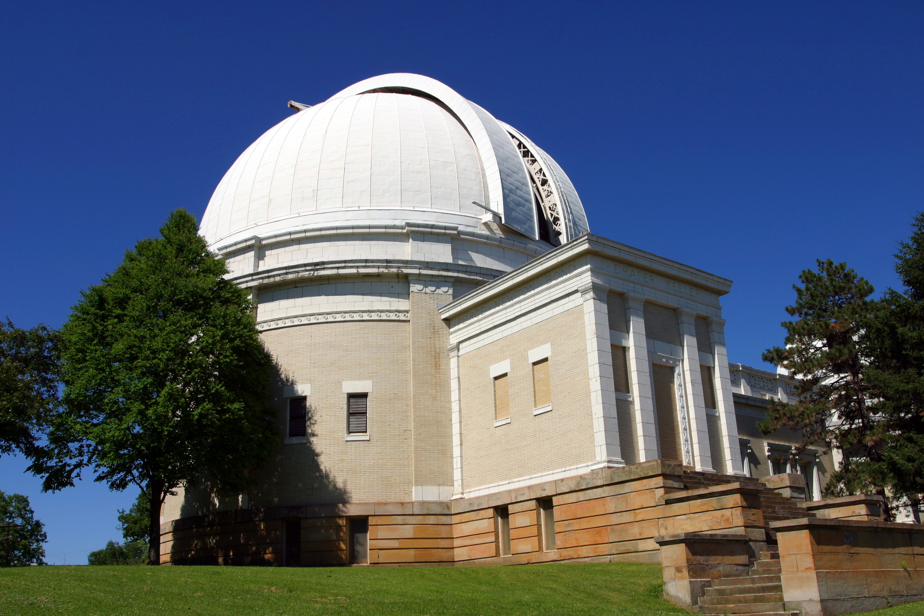 The Allegheny Observatory in 2007.